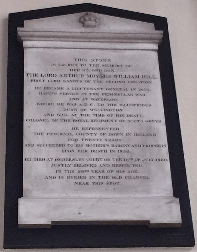 Saint Andrew's church, Ombersley, Worcestershire: Sandys Hill memorial on the north wall of the chancel